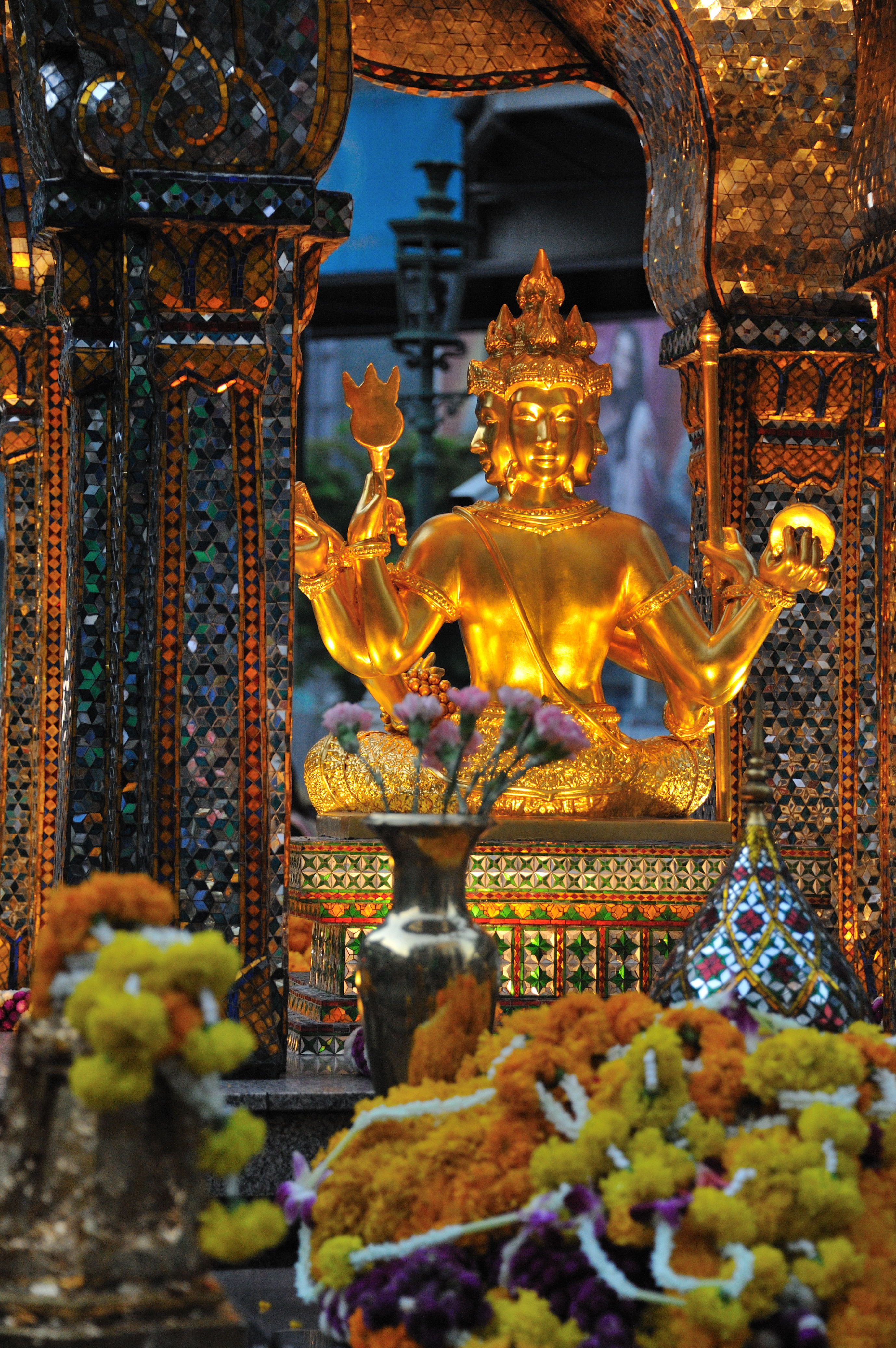 The Erawan Shrine (Thai: ศาลพระพรหม, San Phra Phrom) is a Hindu shrine in Bangkok, Thailand.